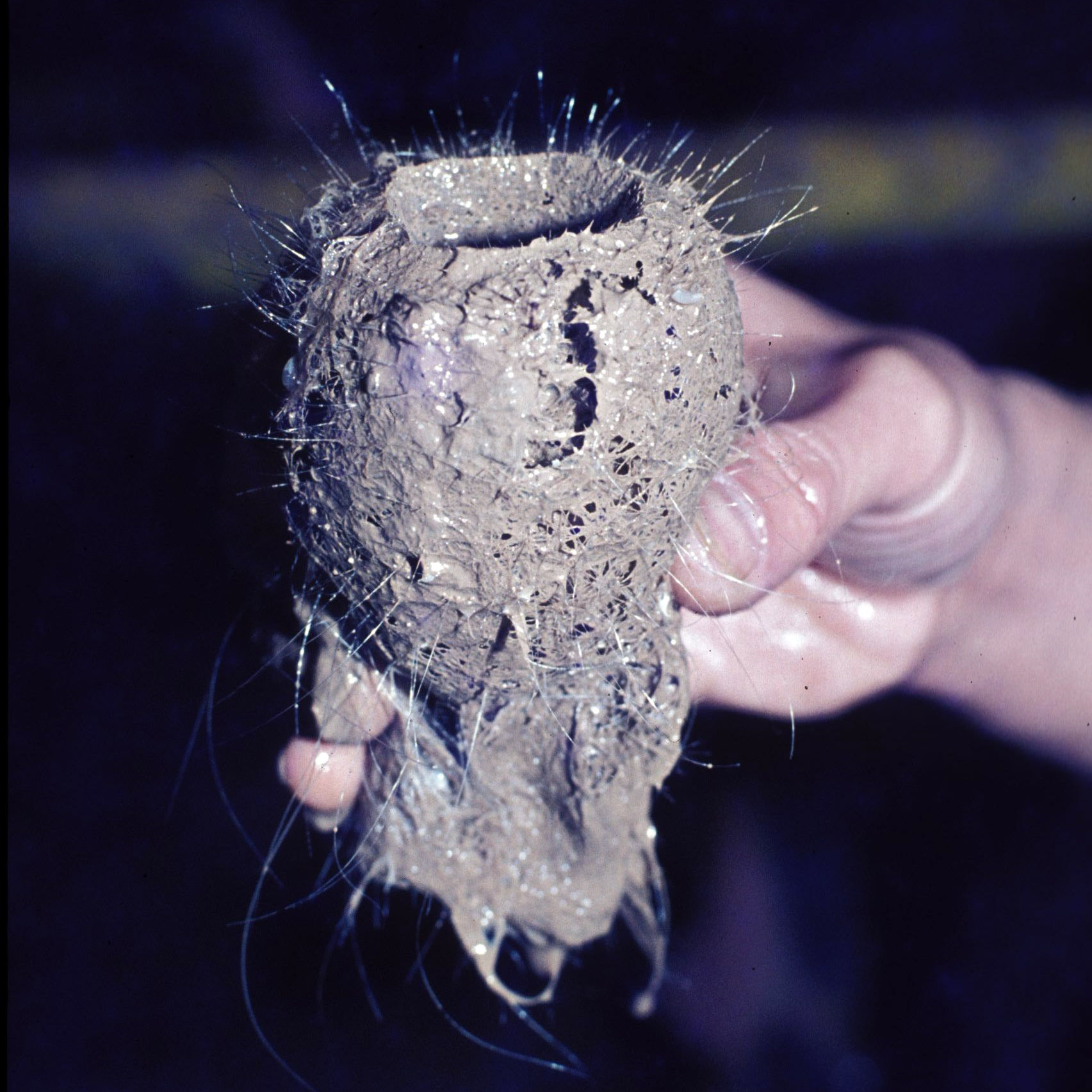 Marine Sponge with glas fibres out of opal (amorphous silica, SiO2). Sampled on cruise M60 with RV METEOR (1965)